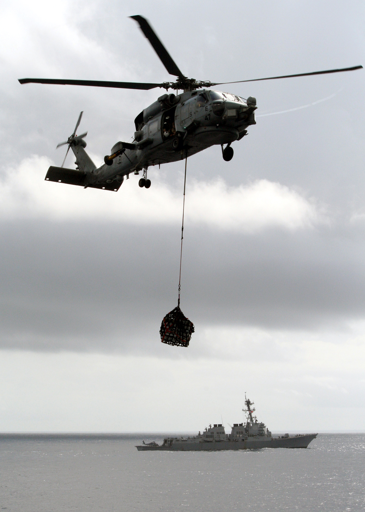 INDIAN OCEAN (Sept.17, 2008) Pilots from the "Wolfpack" of Helicopter Anti-Submarine Squadron Light (HSL) 45 conduct a vertical replenishment between the guided-missile destroyers USS Howard (DDG 83) and USS Halsey (DDG 97). Halsey is deployed to the U.S. 5th fleet area of responsibility with the Peleliu Expeditionary Strike Group. (U.S. Navy photo by LT Austin Long/Released)